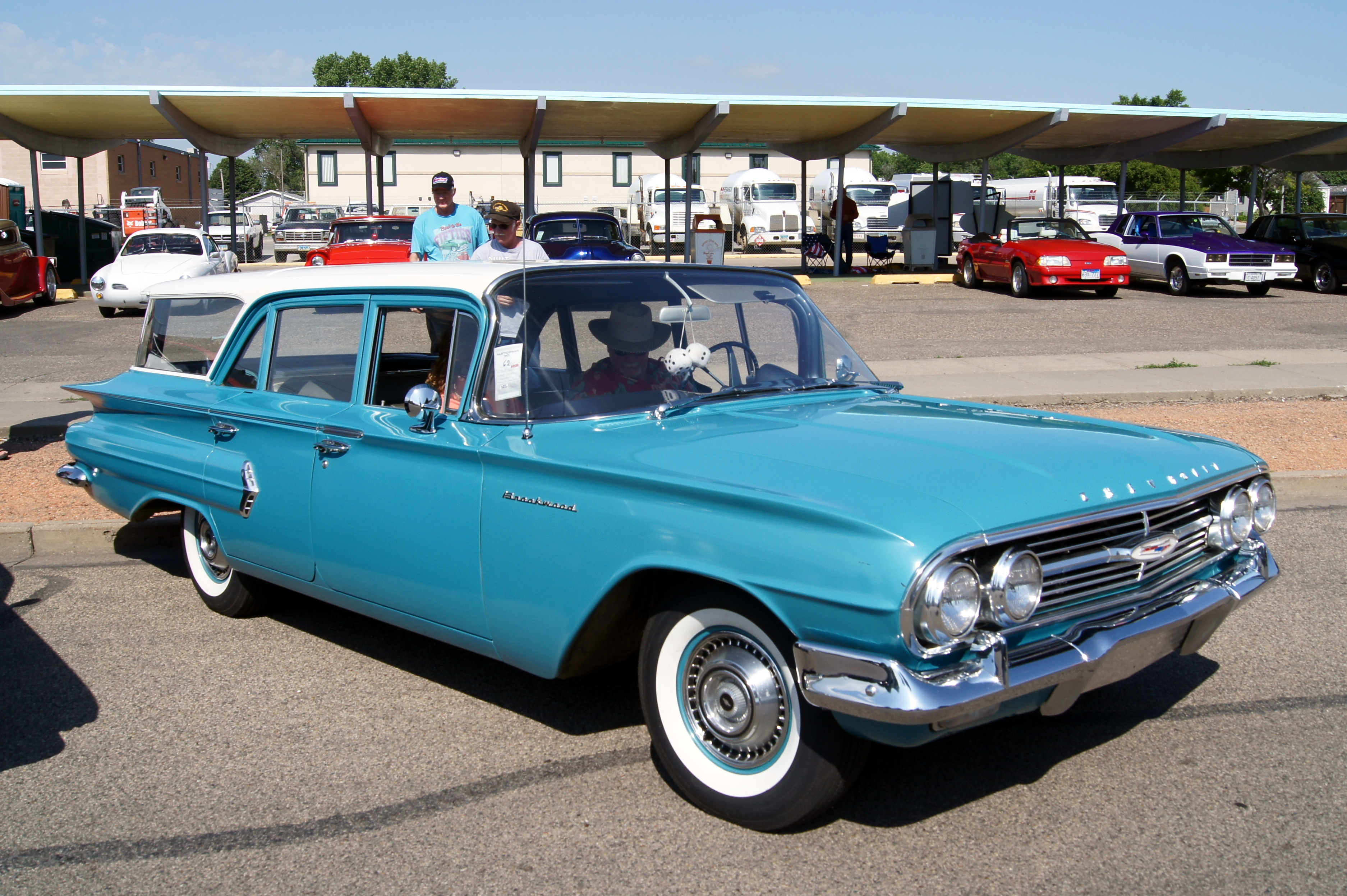 Scotty's Drive-In Bismark, North Dakota June 2012